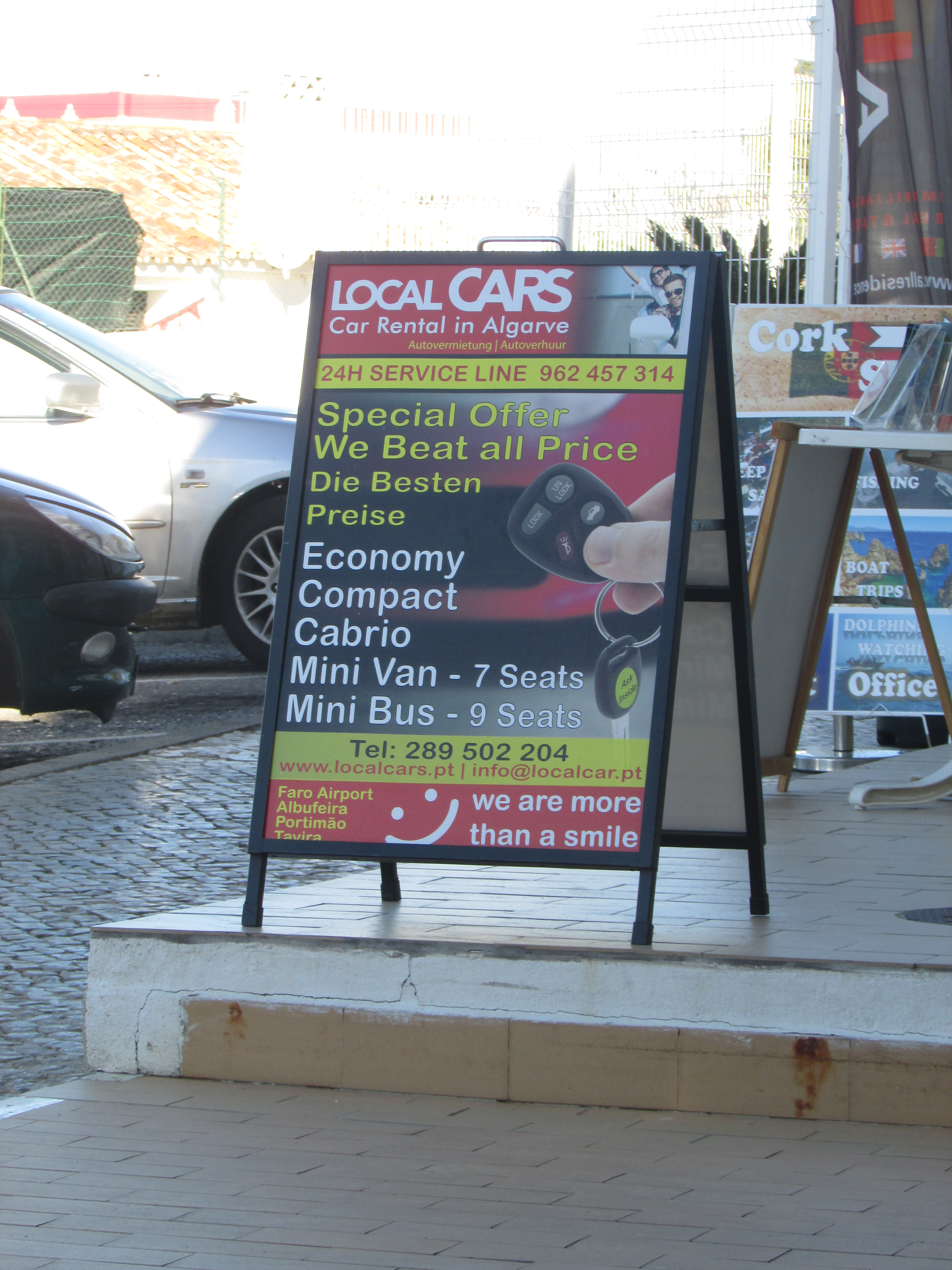 Sandwich board sign advertising Car Hire located on Rua Vasco da Gama within the neighbourhood of Areias de São João within the city of Albufeira, Algarve, Portugal.